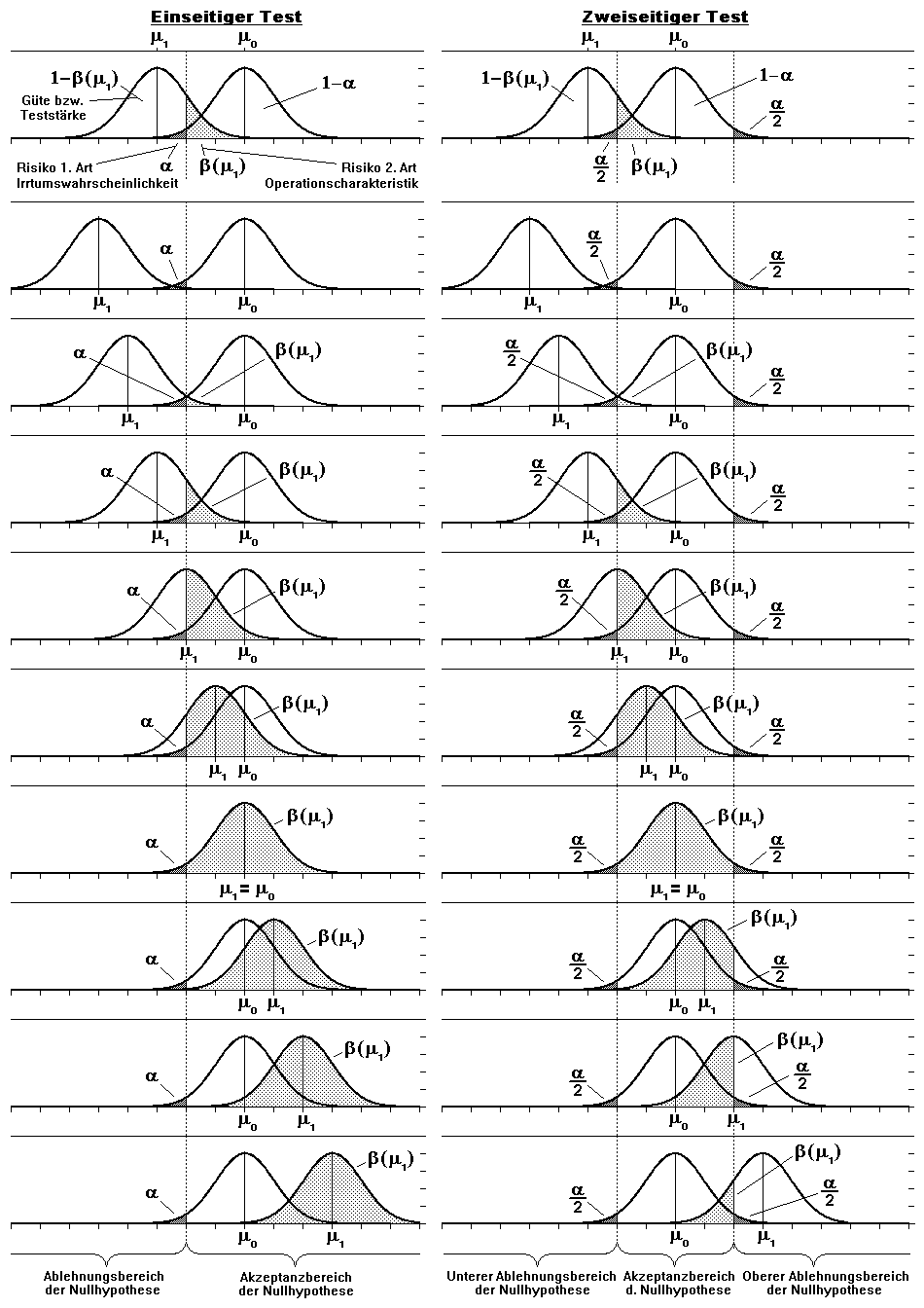 Dependance of type II error on true value of paramter µ1 in case of an one- and two-sided statistical test. German version